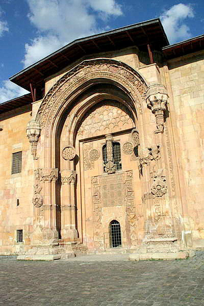 Portal of Hospital,Great Mosque and Hospital of Divriği; Divriği, Sivas, Turkey